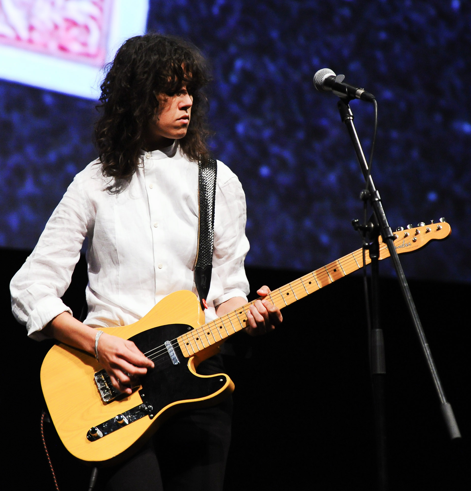 2016/2017 Slaight Music Residency alumna Aimee Bessada.